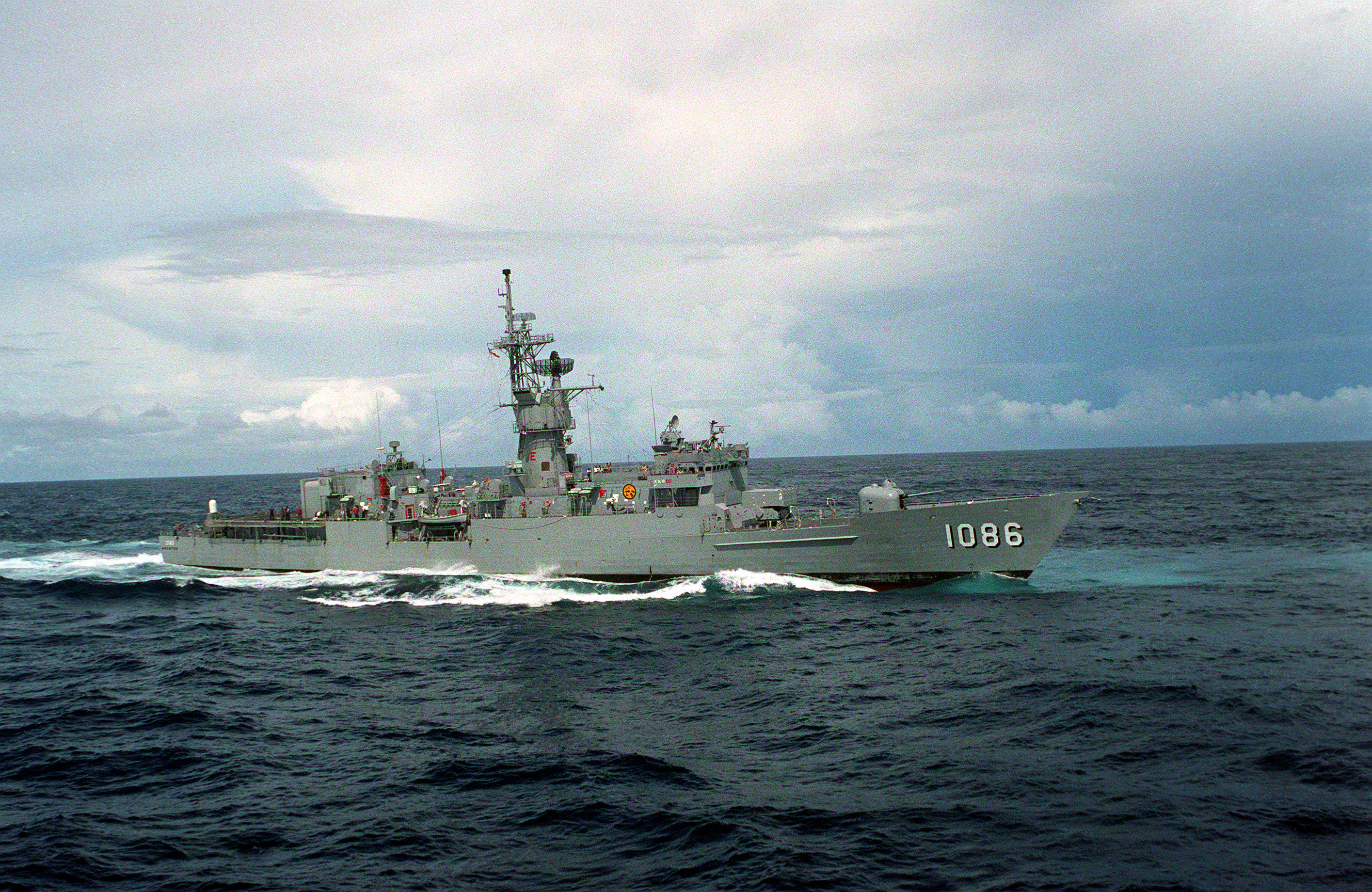 A starboard bow view of the frigate USS BREWTON (FF-1086) underway north of Diego Garcia en route to the Persian Gulf after the invasion of Kuwait by Iraqi forces.